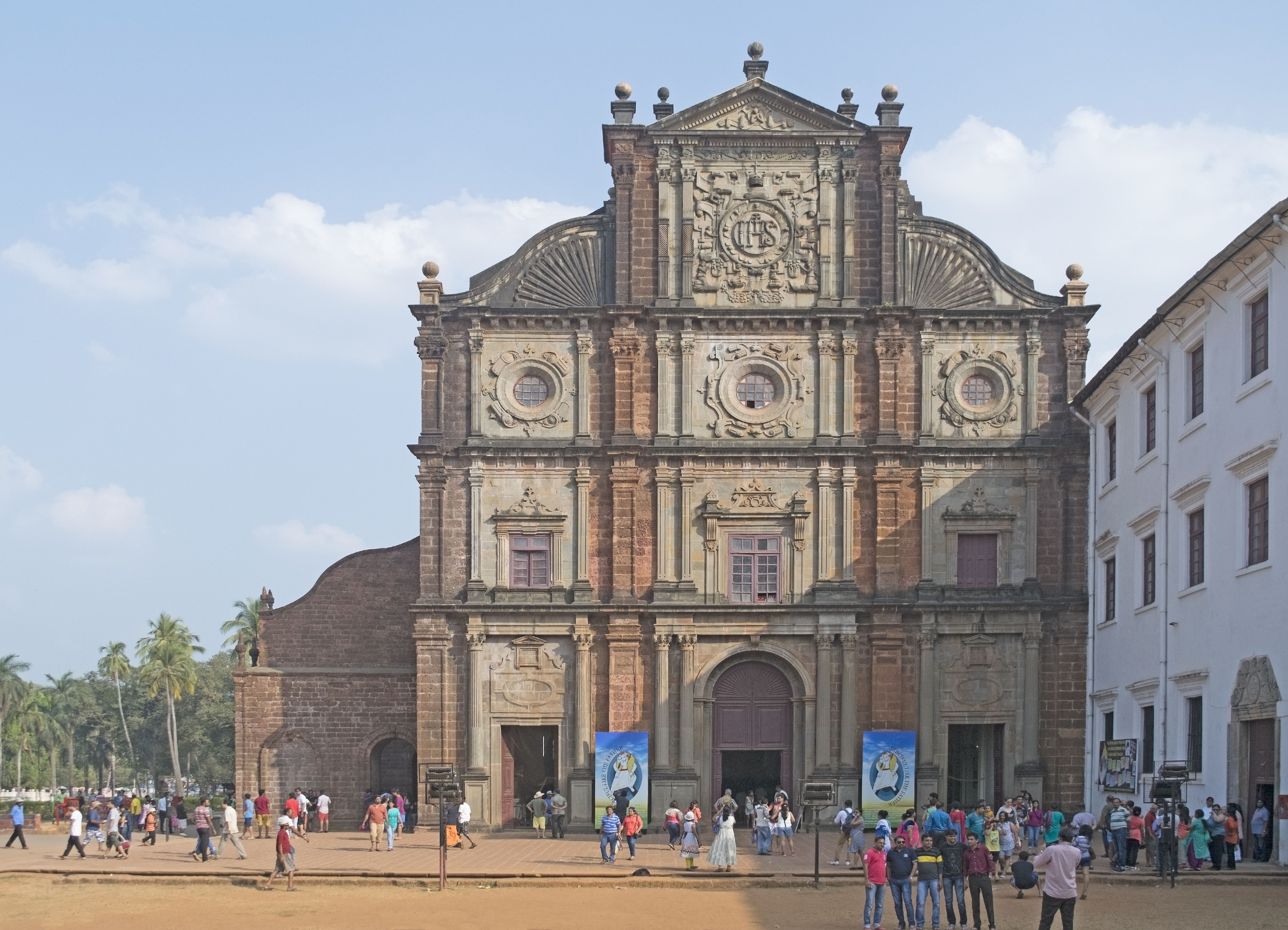 Facade of Basilica of Bom Jesus, Panjim, Goa, India